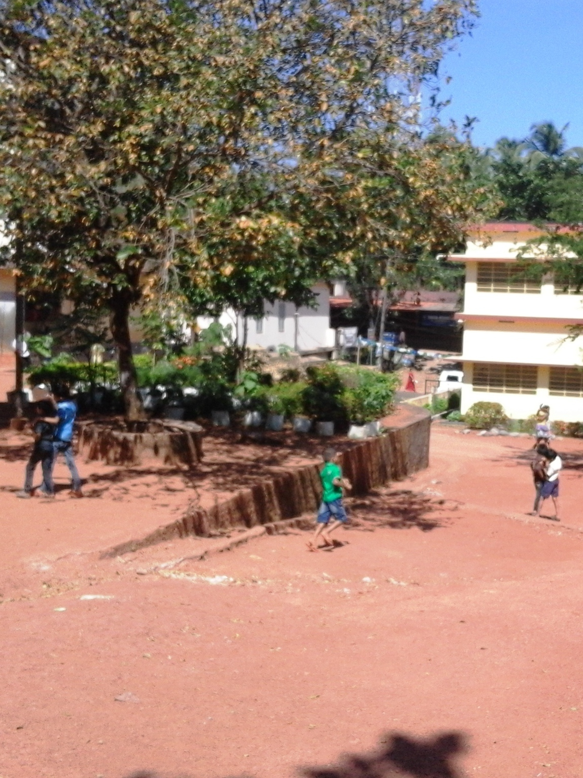 Thachampara, Mannarkkad, Palakkad District, Kerala, India.